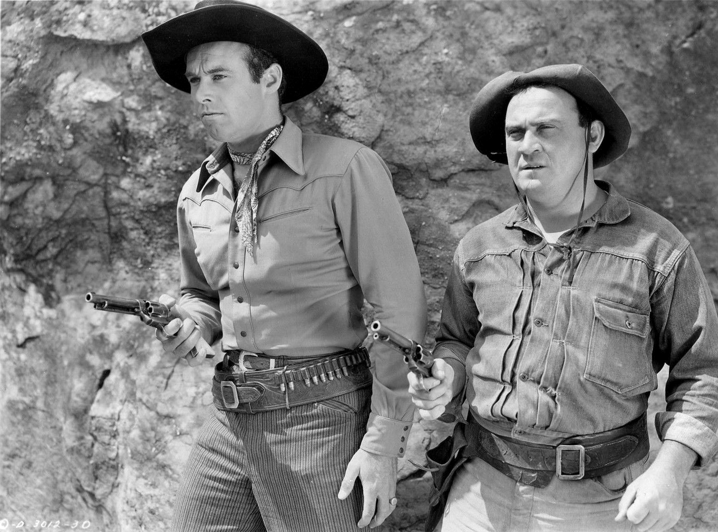 Rustlers of the Badlands (1945 western movie) publicity still. Tex Harding (left) and Dub Taylor (right).